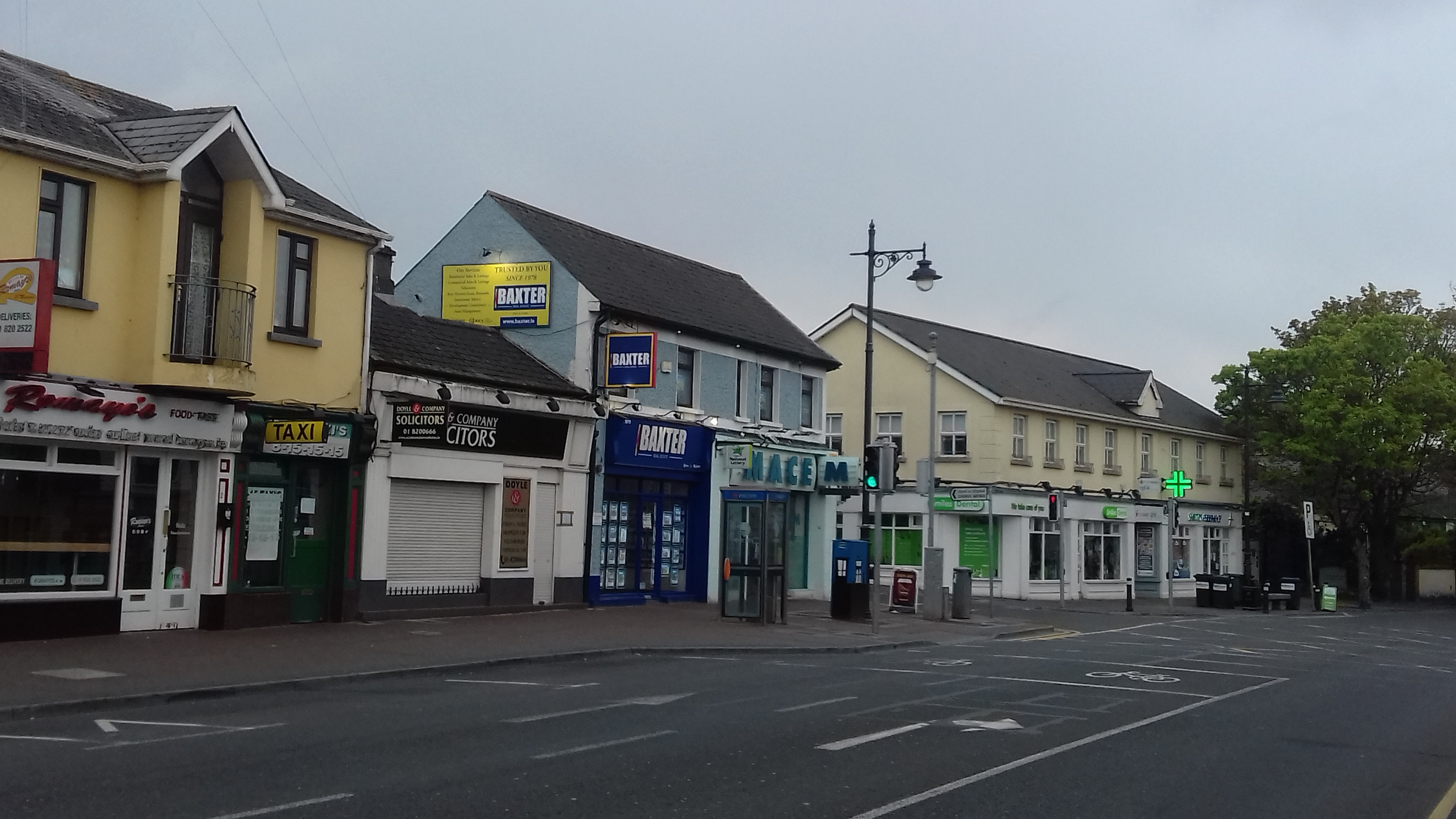 During the COVID-19 pandemic, the streets of Blanchardstown were almost deserted. Looking towards the east from the Ulster Bank, you have the main street, Mill Road on the right and Church Avenue on the left. Shop fronts visible.